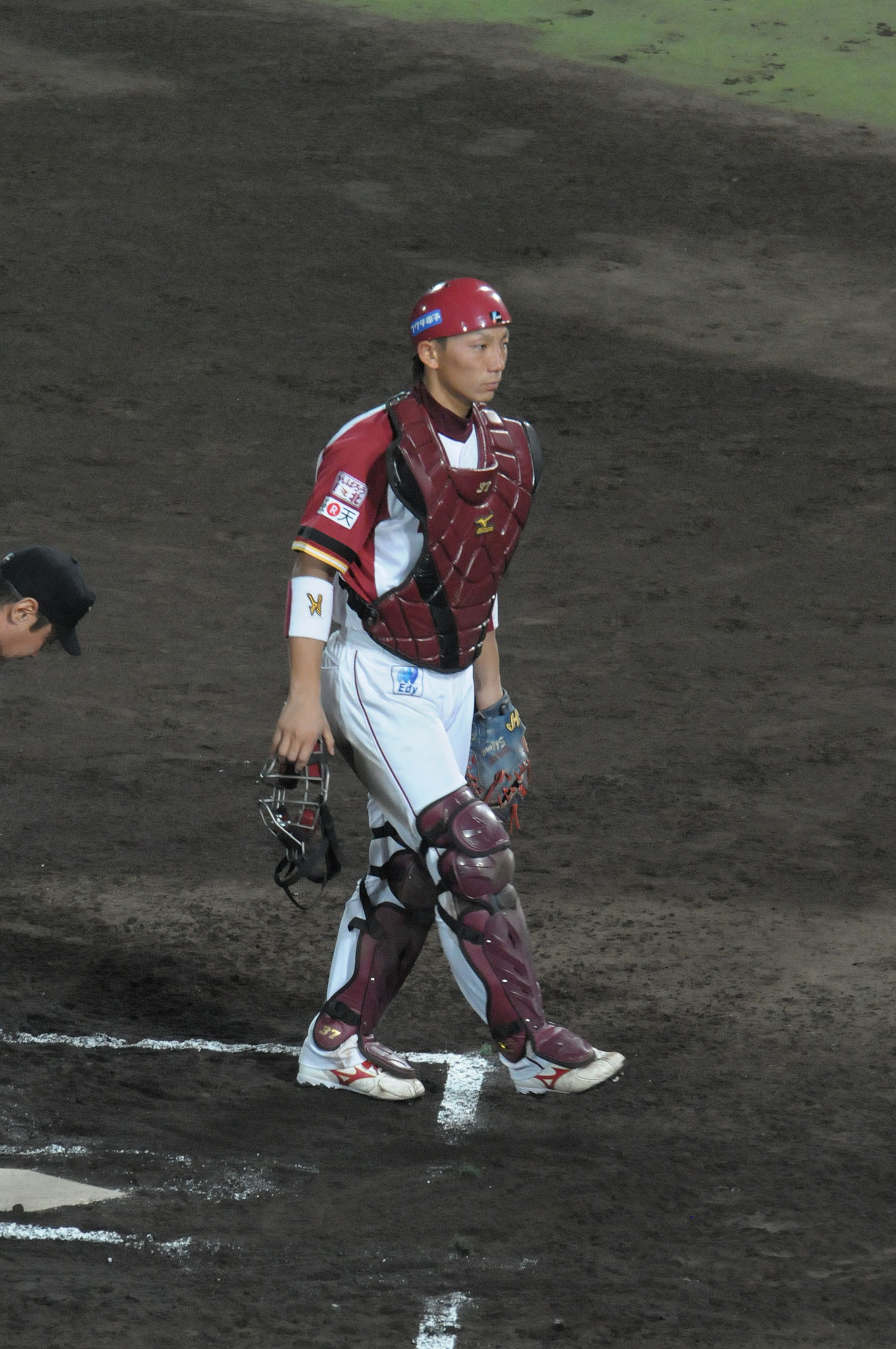 Motohiro Shima, catcher of the Tohoku Rakuten Golden Eagles, at Akita Prefectural Baseball Stadium